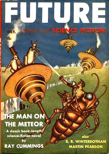 October 1941 cover of the Future Combined with Science Fiction magazine, volume 2, issue 2.